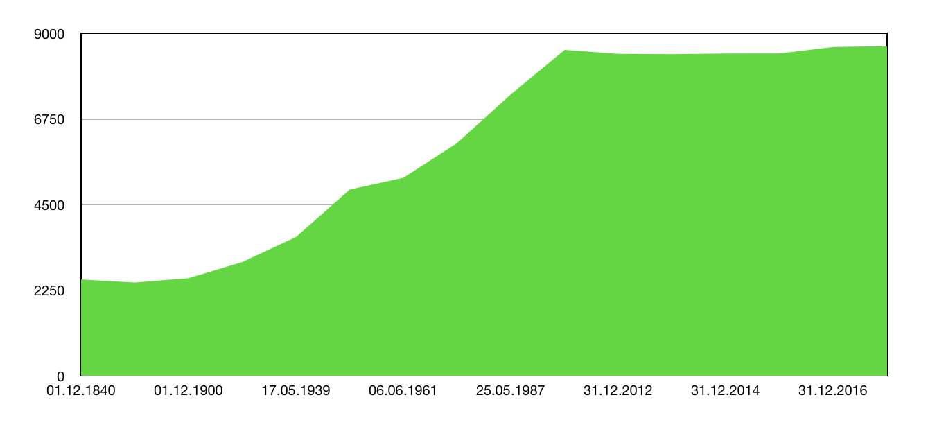 Demographic trend Obernburg am Main